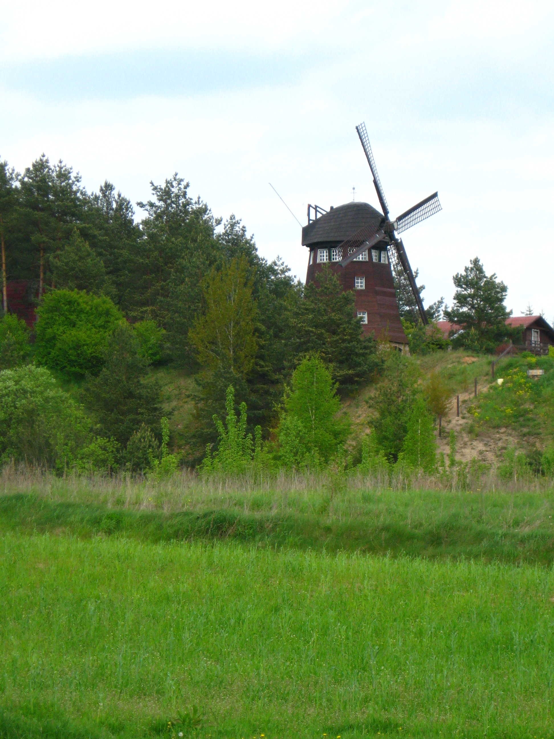 Studzianki, gmina Wasilków: windmill near the village